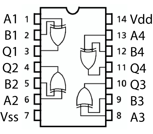 From en.wp, where it was released to public domain by its creator.